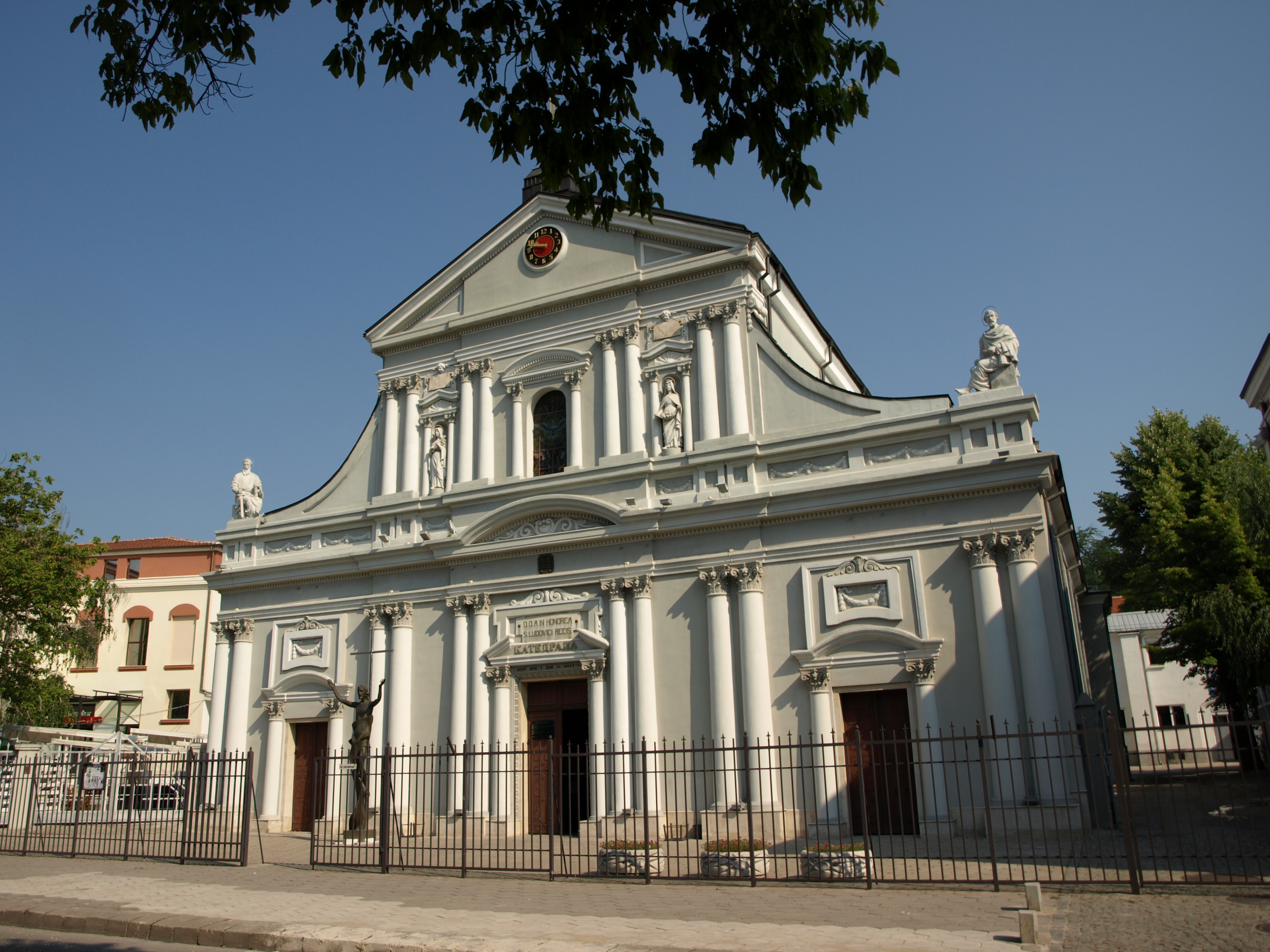 Roman Catholic Cathedral of St Louis, Plovdiv, Bulgaria